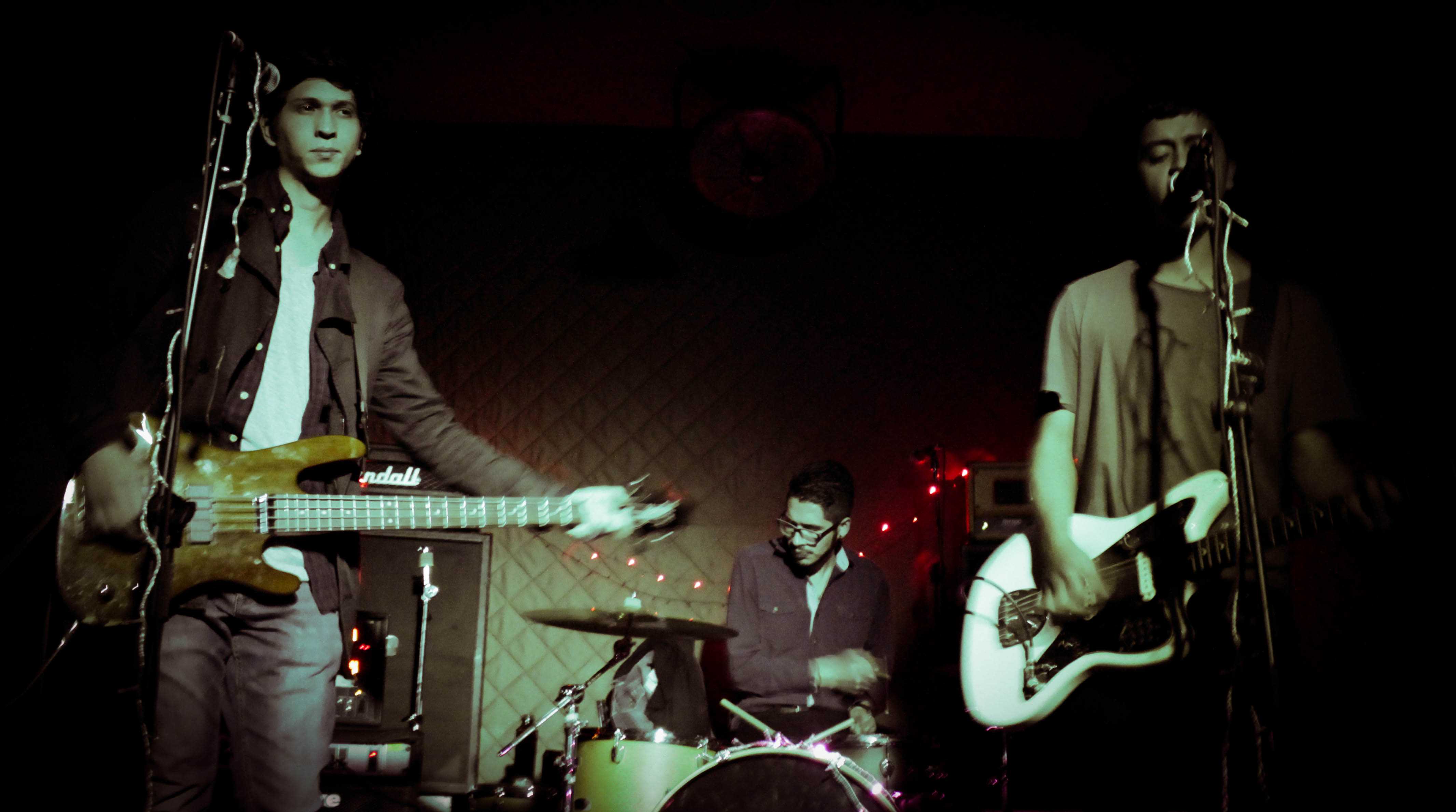 Appletree playing at Cuatro Cuartos, Bogotá. 2015